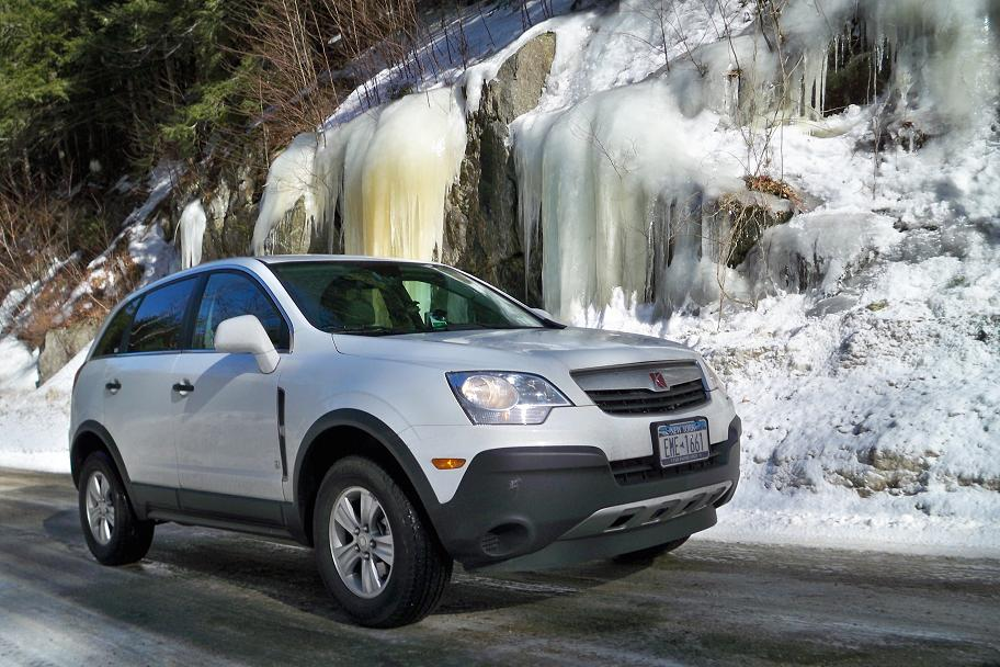 2009 Saturn Vue on an AWD Trail in the Appalachian Mountains